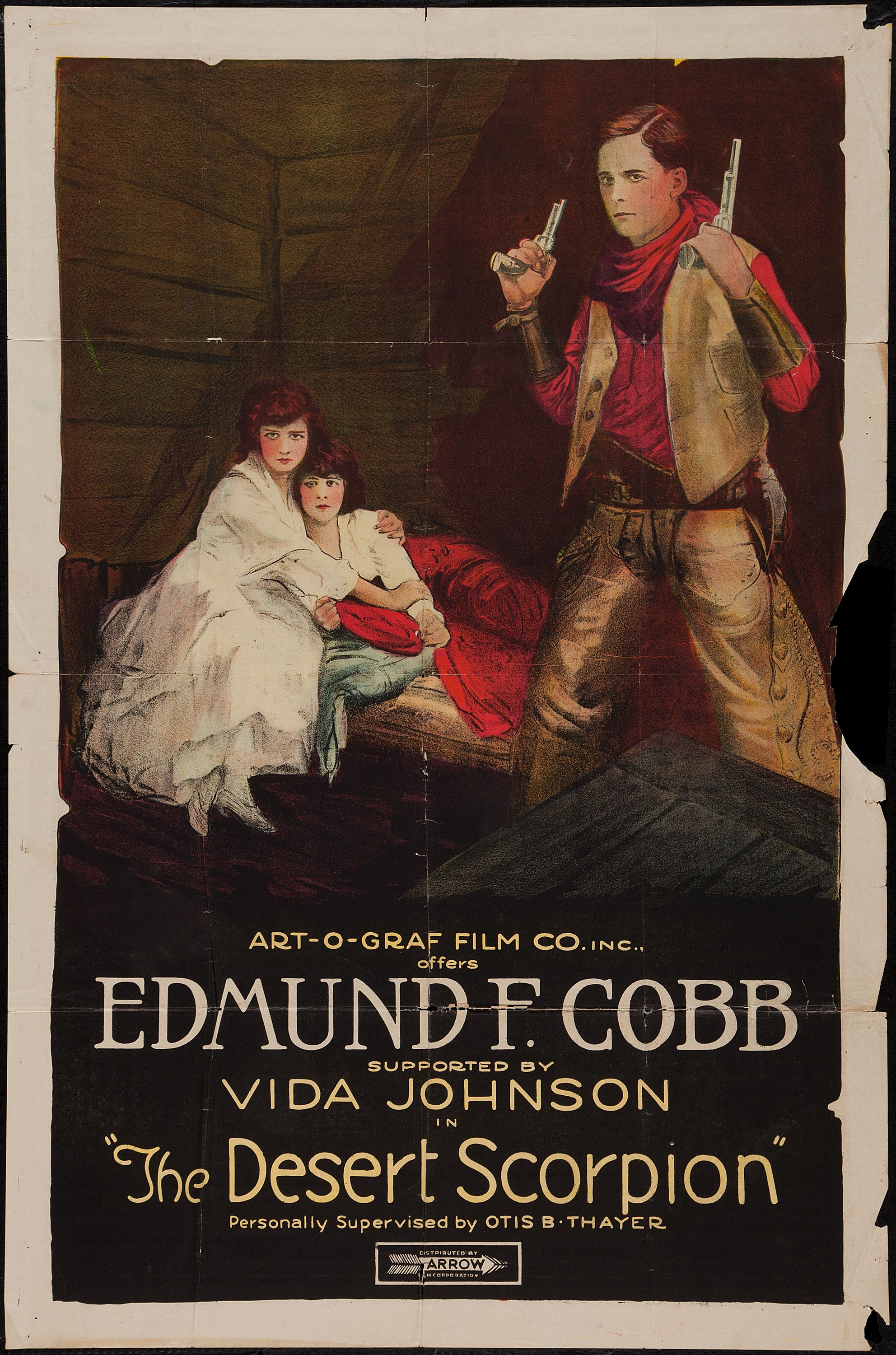 Film poster for The Desert Scorpion (1920) with Edmund Cobb and Vida Johnson.